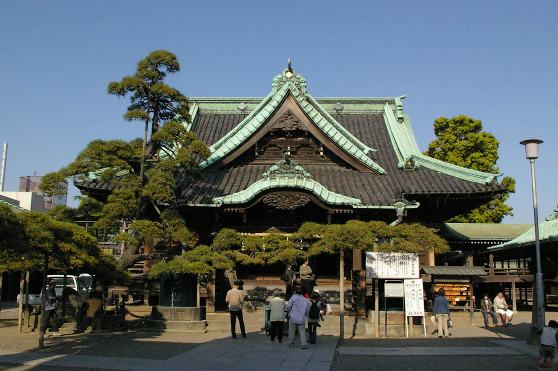 Shibamata Taishakuten, a temple in Shibamata, Katsushika, Tokyo.